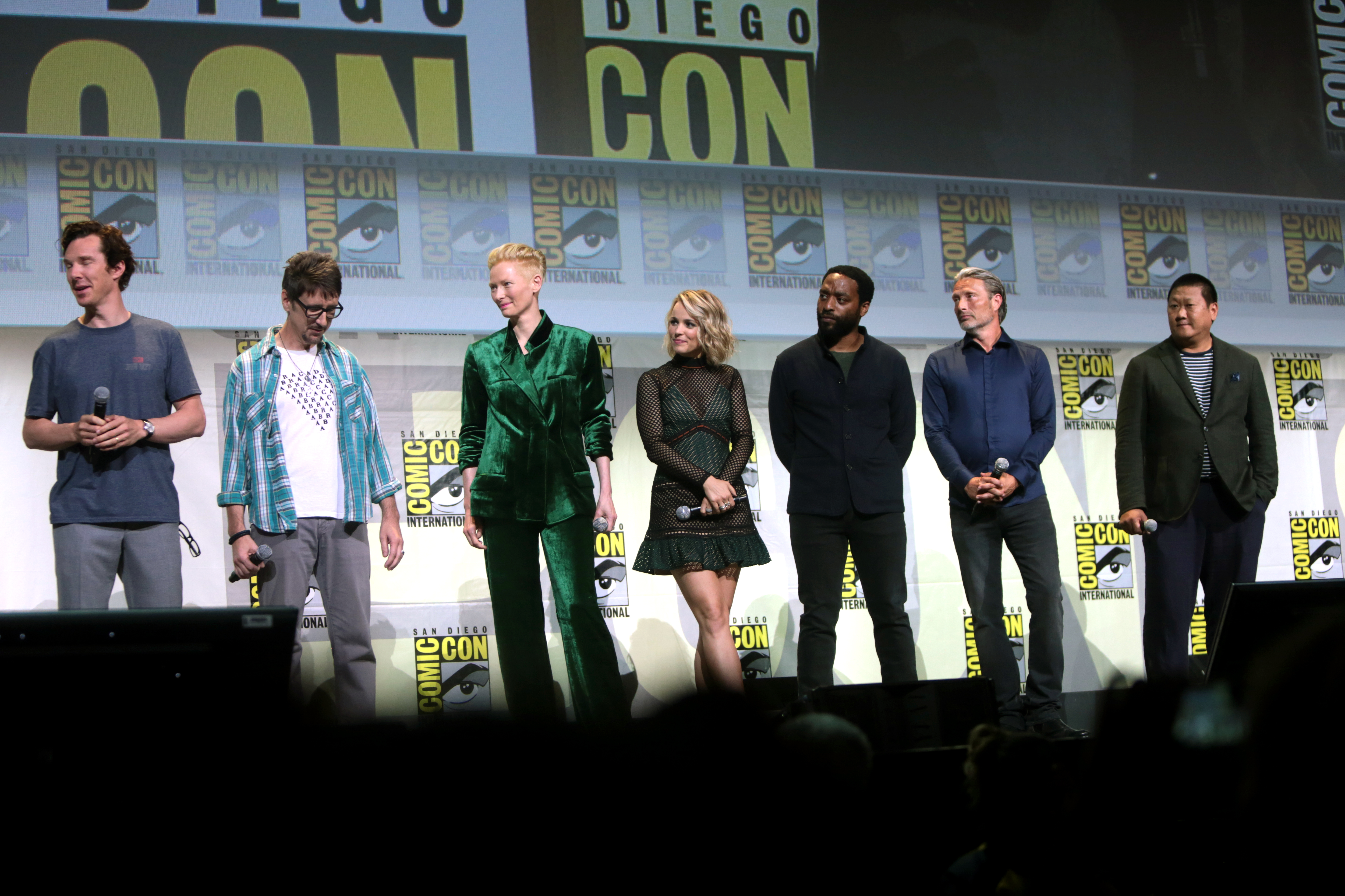 Benedict Cumberbatch, Scott Derrickson, Tilda Swinton, Rachel McAdams, Chiwetel Ejiofor, Mads Mikkelsen and Benedict Wong speaking at the 2016 San Diego Comic Con International, for "Doctor Strange", at the San Diego Convention Center in San Diego, California.